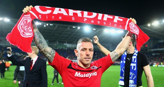 Cardiff city got promoted when they played Charlton athletic on Tuesday night. The npower cup trophy will be awarded to cardiff on Saturday 27th April 2013